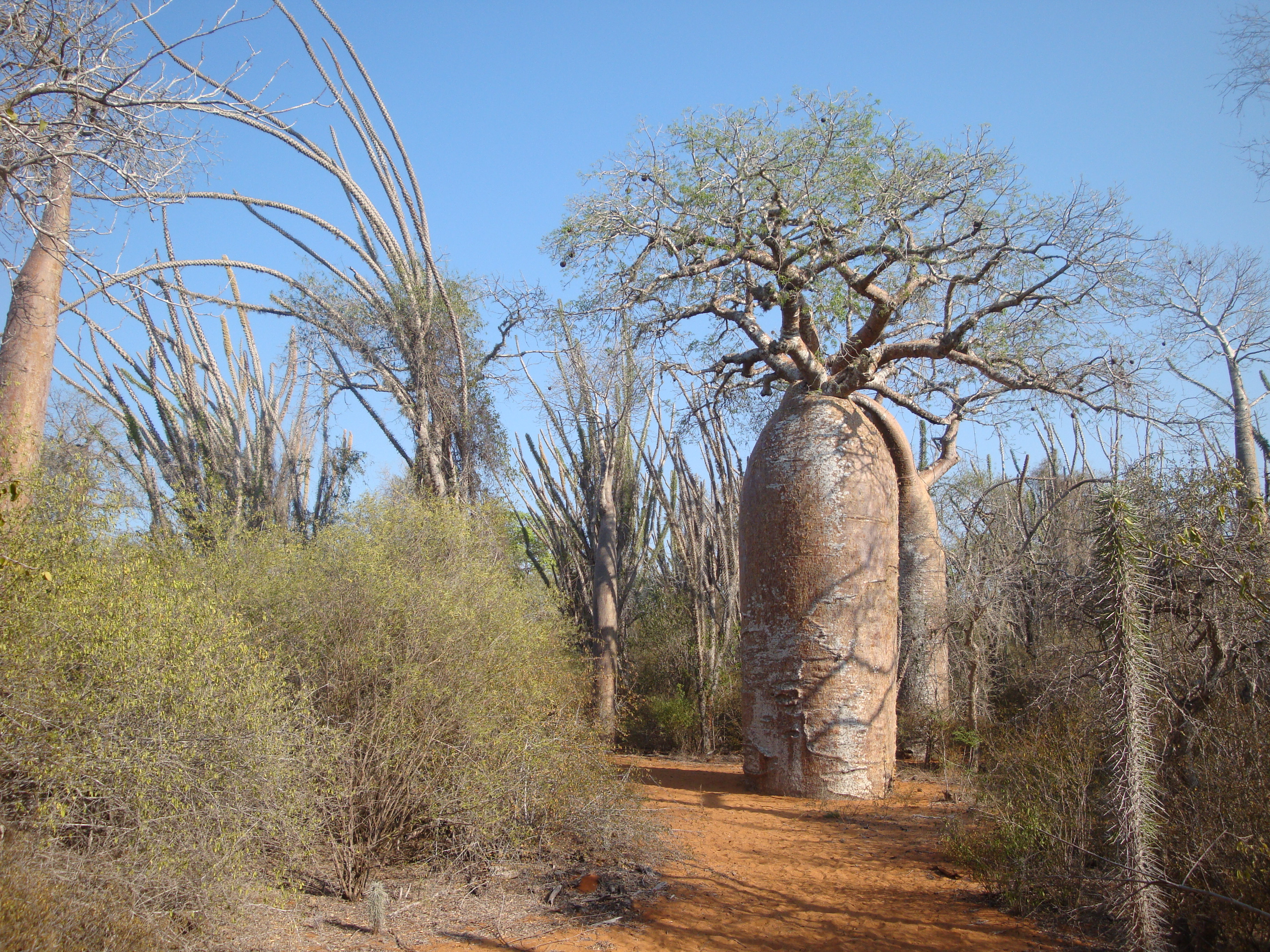 Typical vegetation in the spiny forest at Parc Mosa à Mangily, Ifaty, in southwestern Madagascar